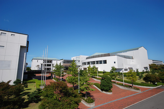 Iwaki Meisei University Gate, Iwaki, Fukushima, Japan